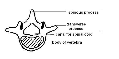 Diagram of a lumbar vertebra by Ruth Lawson, Otago Polytechnic.